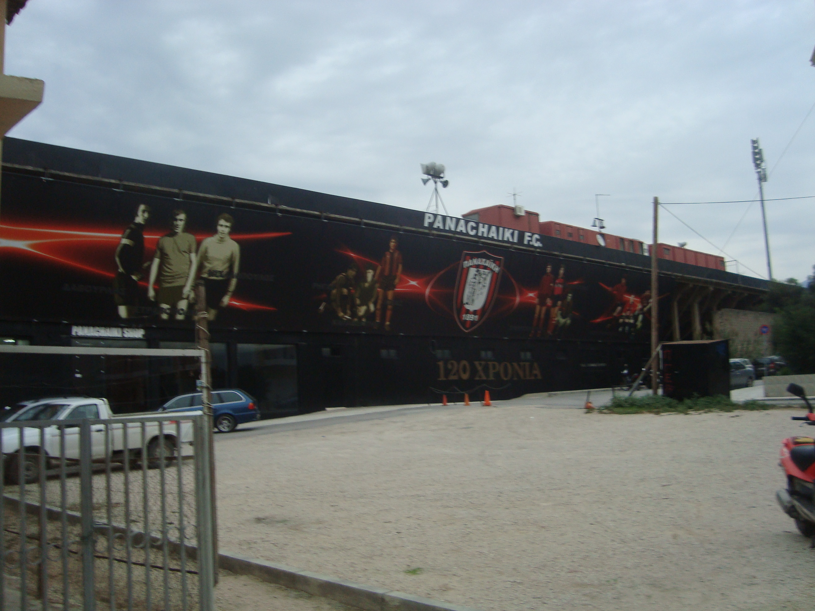 Gate 2 Panachaiki stadioum Patras